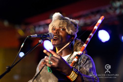 Sotho Sounds - photo by Jacob Crawfurd